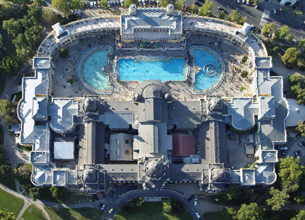 Széchenyi Bath, Hungary, Budapest, aerial photography